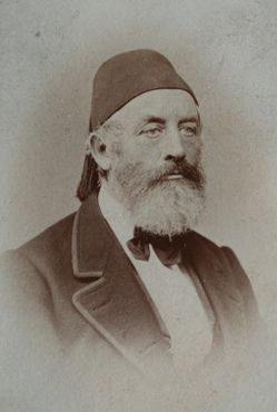 Christoph Hoffmann, Founder of the Temple Society